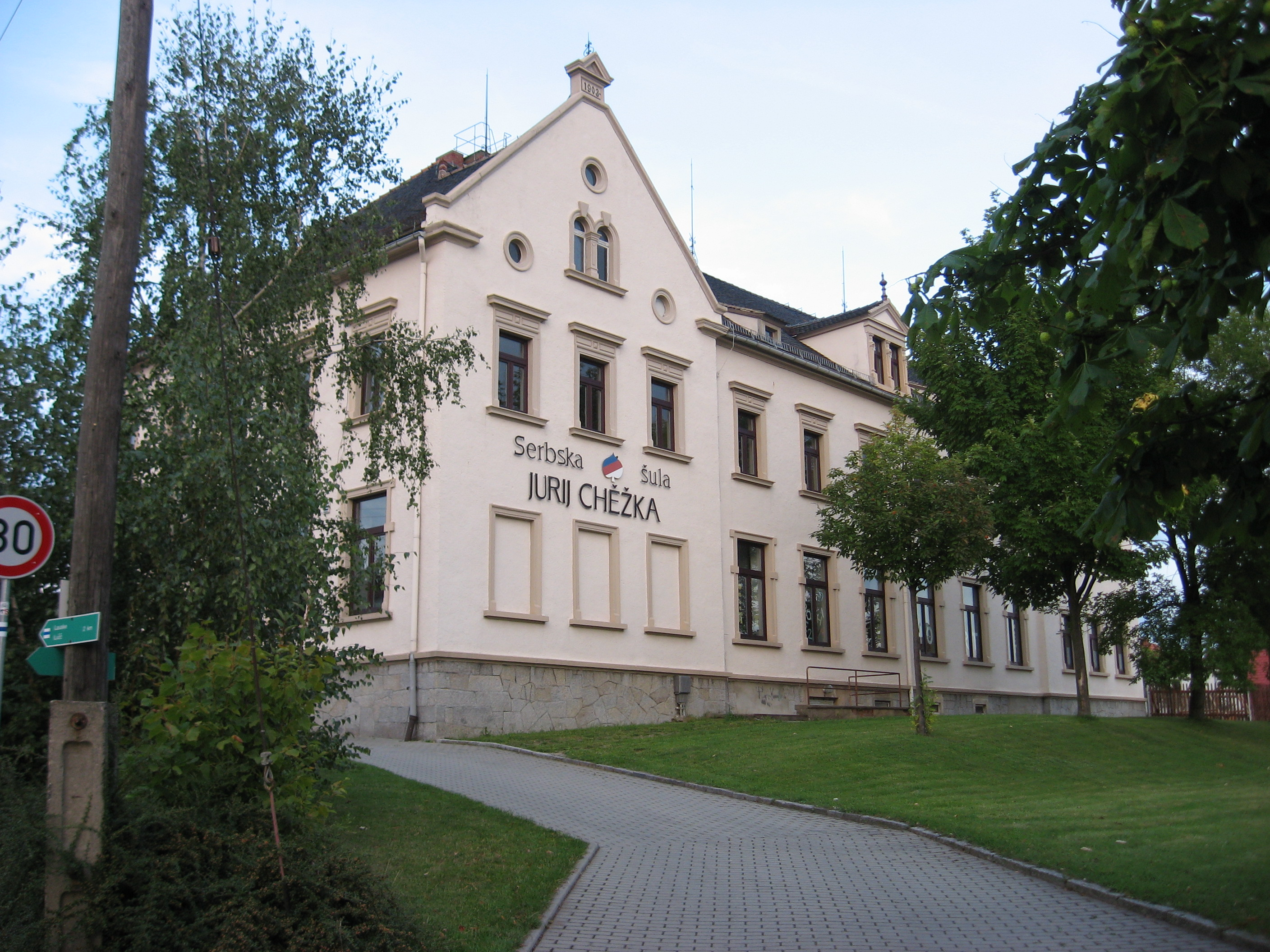 Sorbian school "Jurij Chěžka" in Chrósćicy/Crostwitz